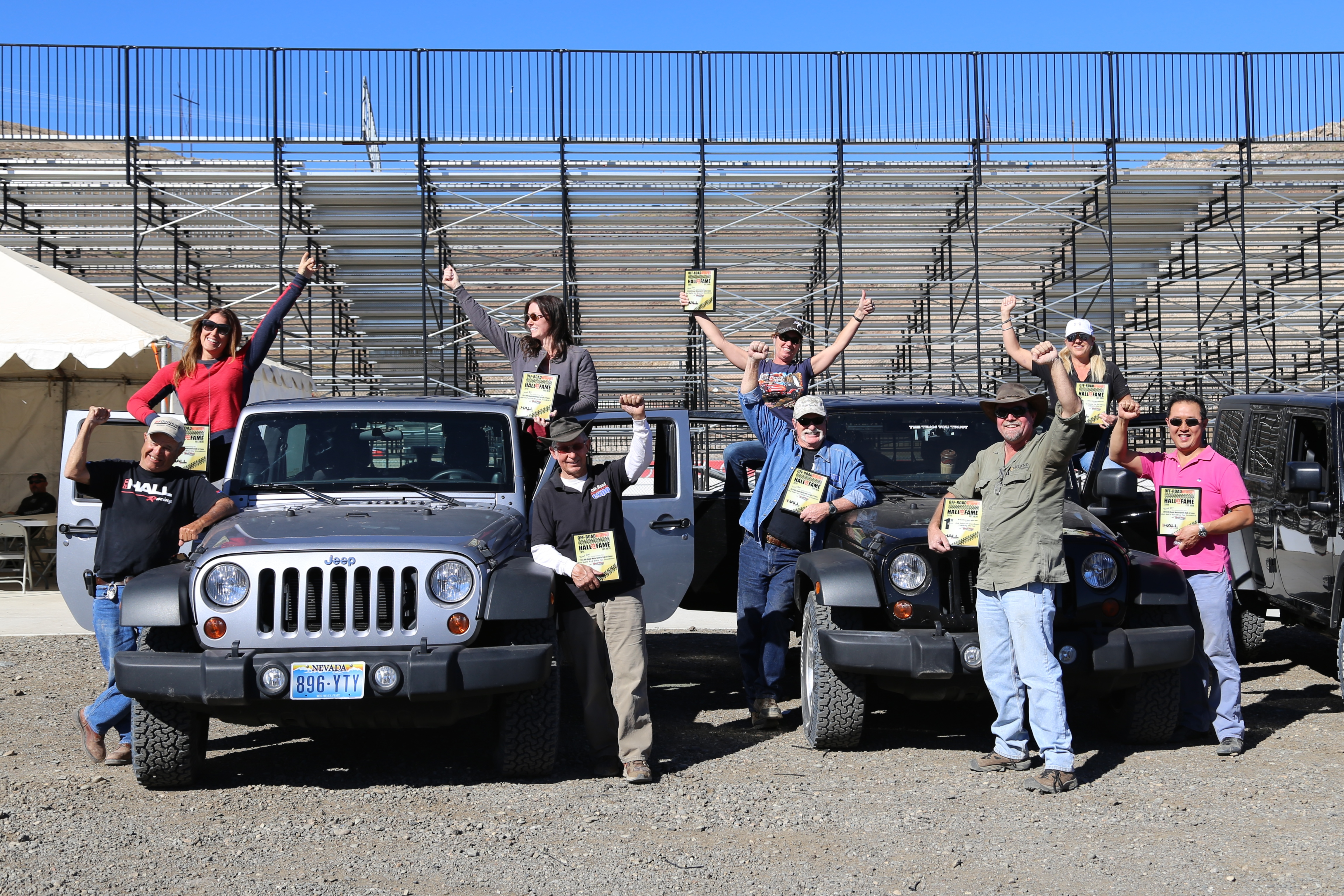 Rod Hall and the celebrity group celebrate the results of a Rod Hall DRIVE celebrity competition in October 2014 at Wild West Motorsports Park.